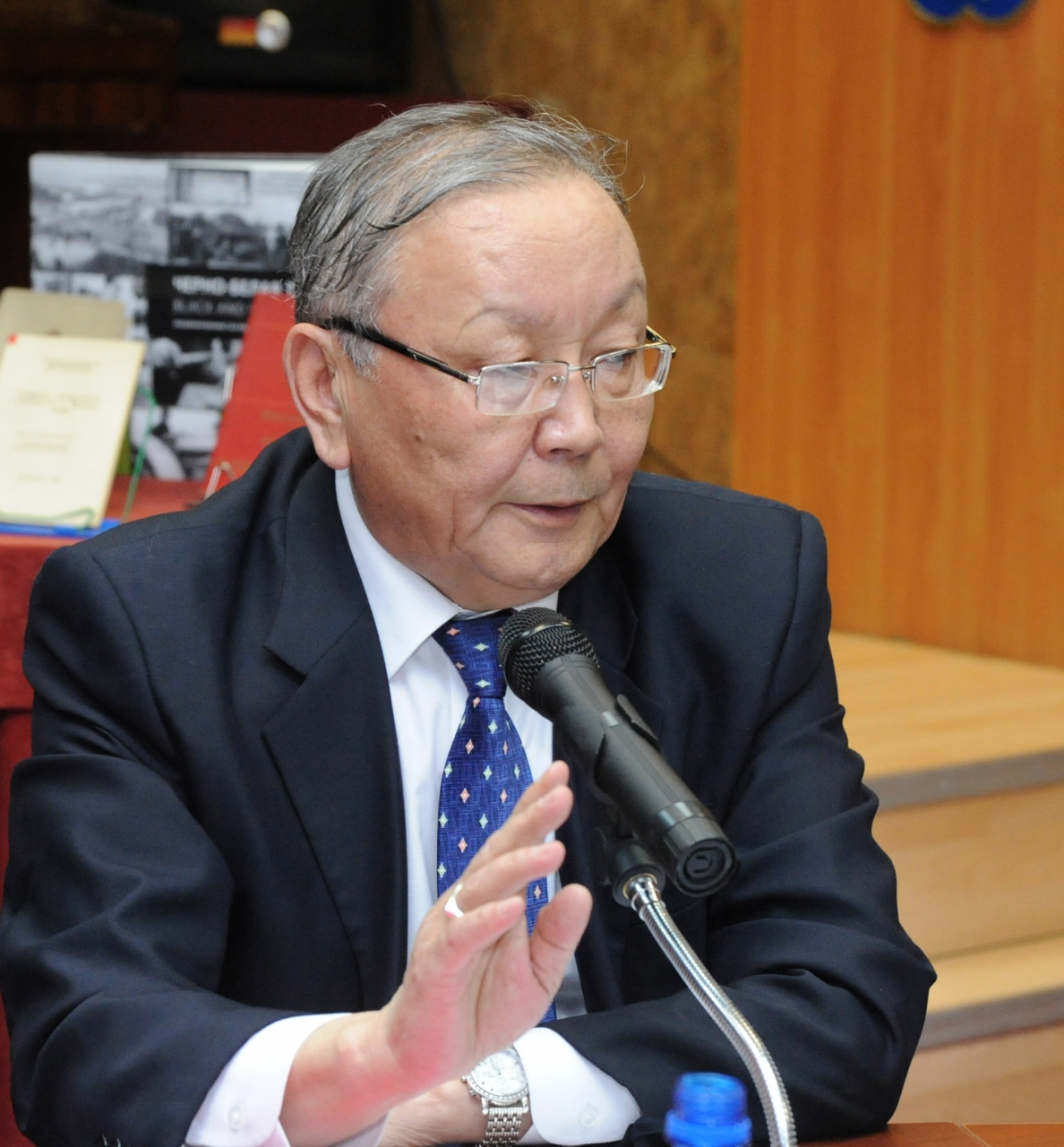 Bicheldei Kaadyr-ool